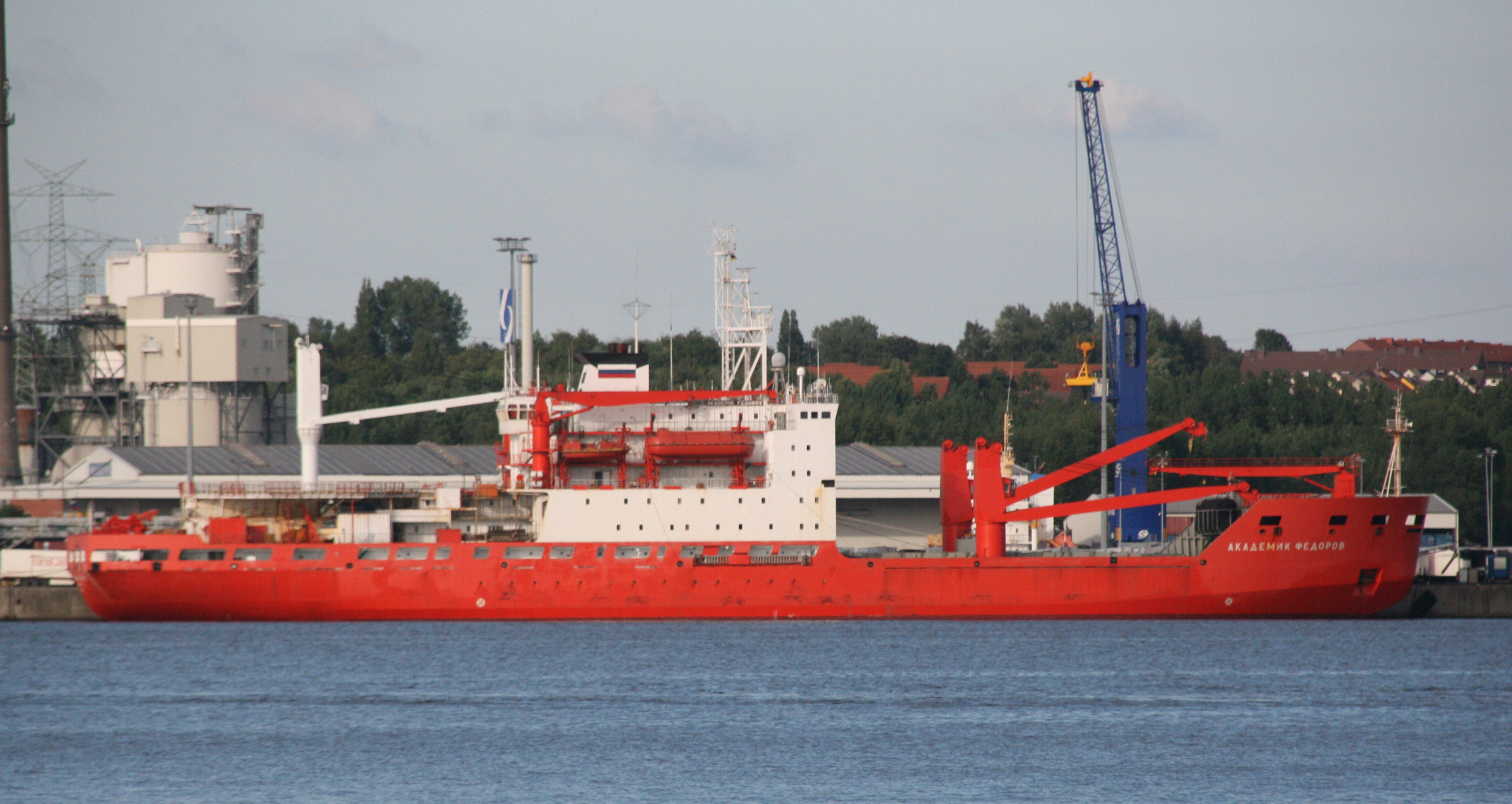 Russian polar research vessel R/V Akademik Fyodorov at Kiel, Germany